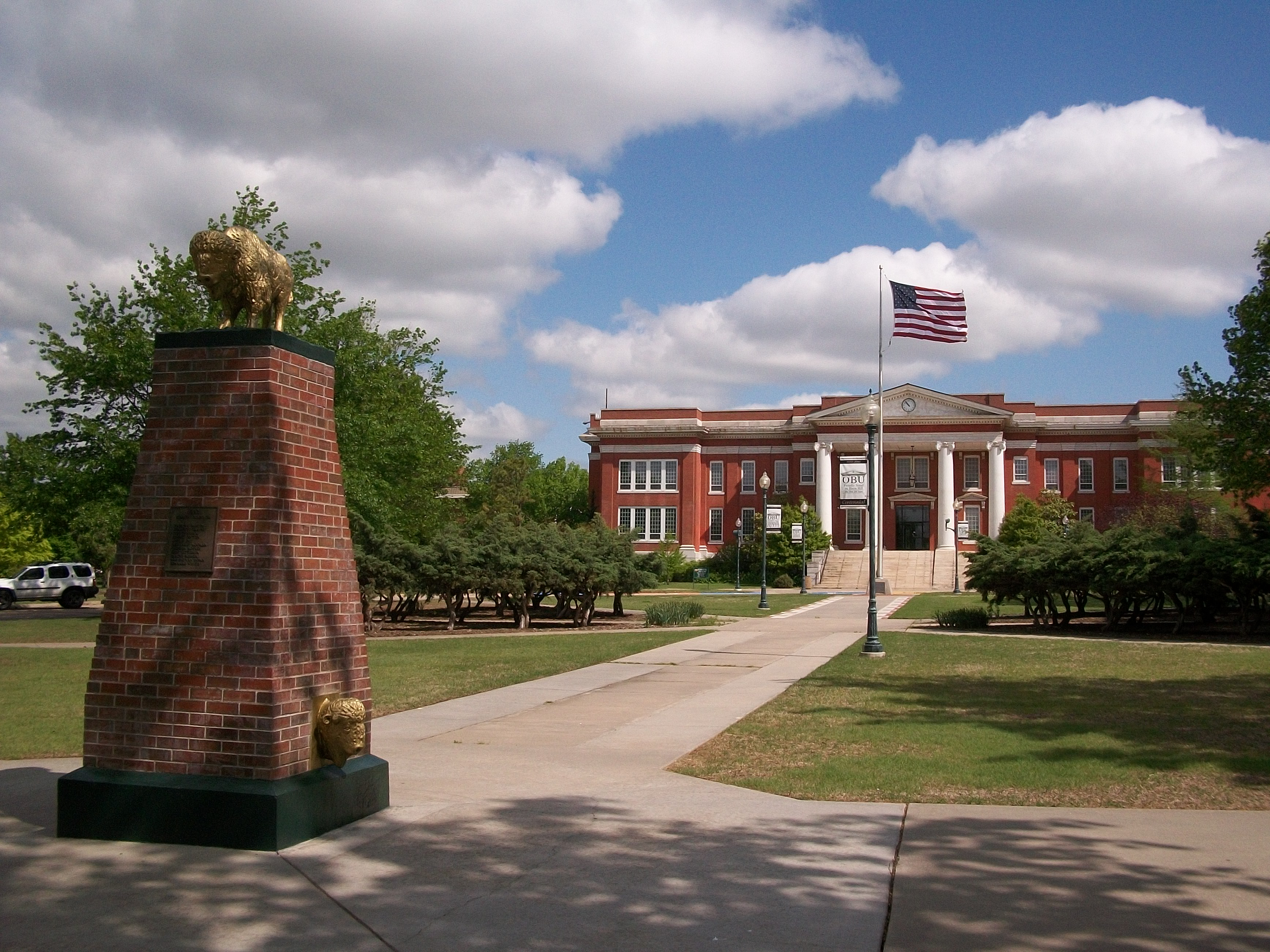 Oklahoma Baptist University Campus oval. Monument donated in 1934